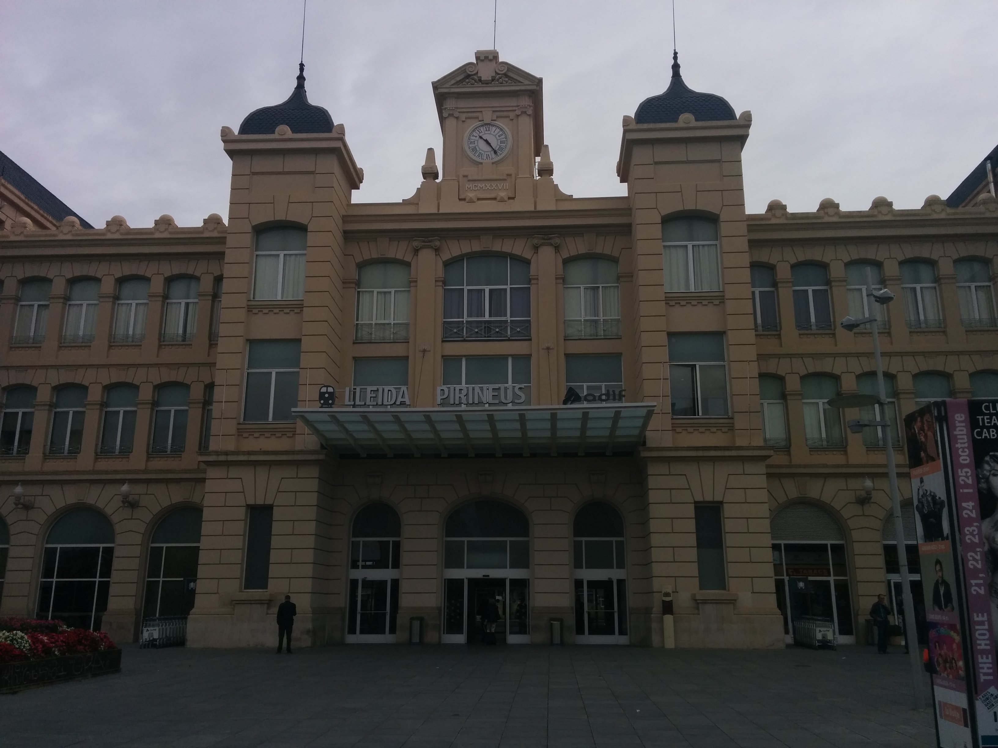 Lleida station in Catelonia (Estació Lleida-Pirineus)